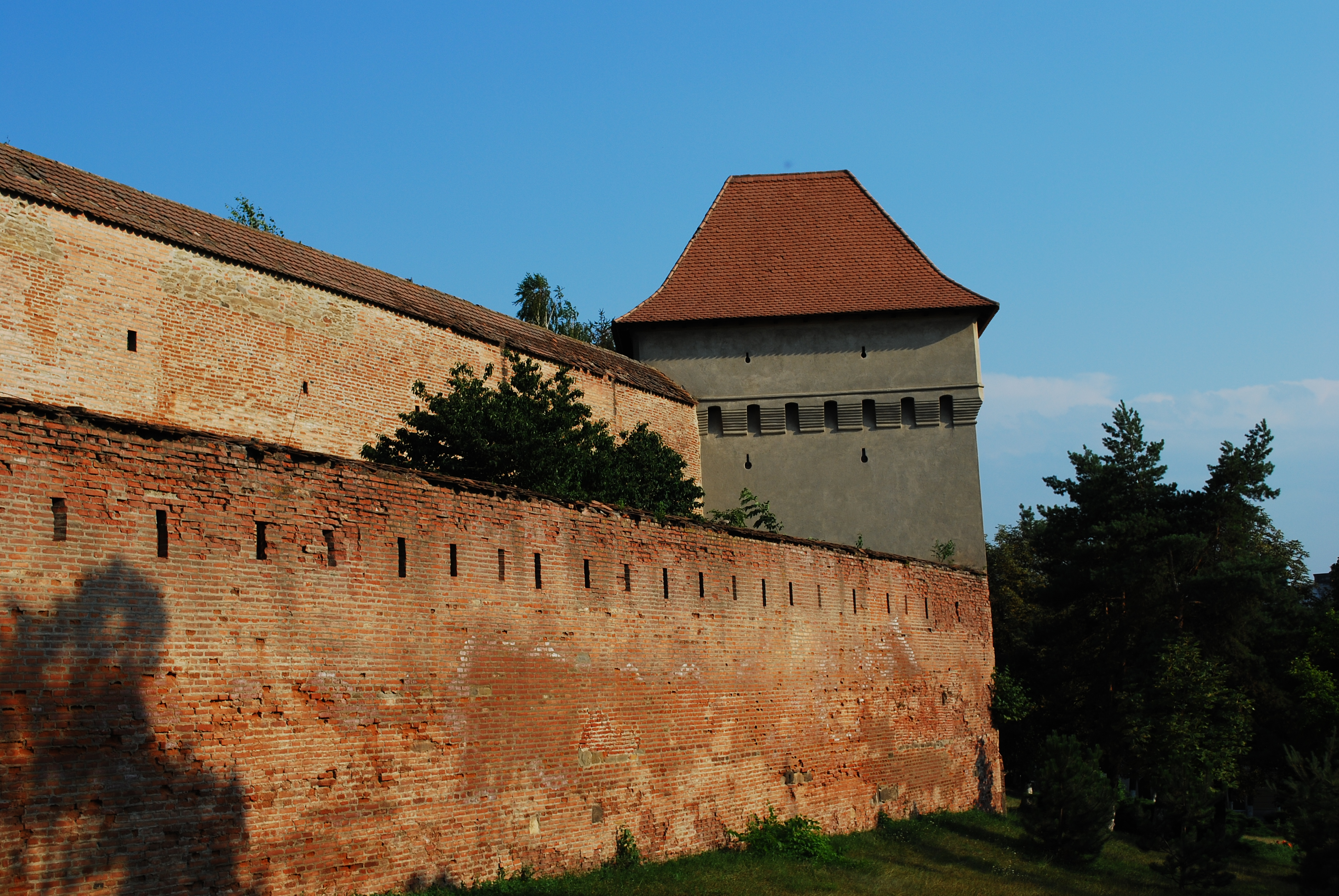 The wall of the fortress in Târgu Mureş, Romania